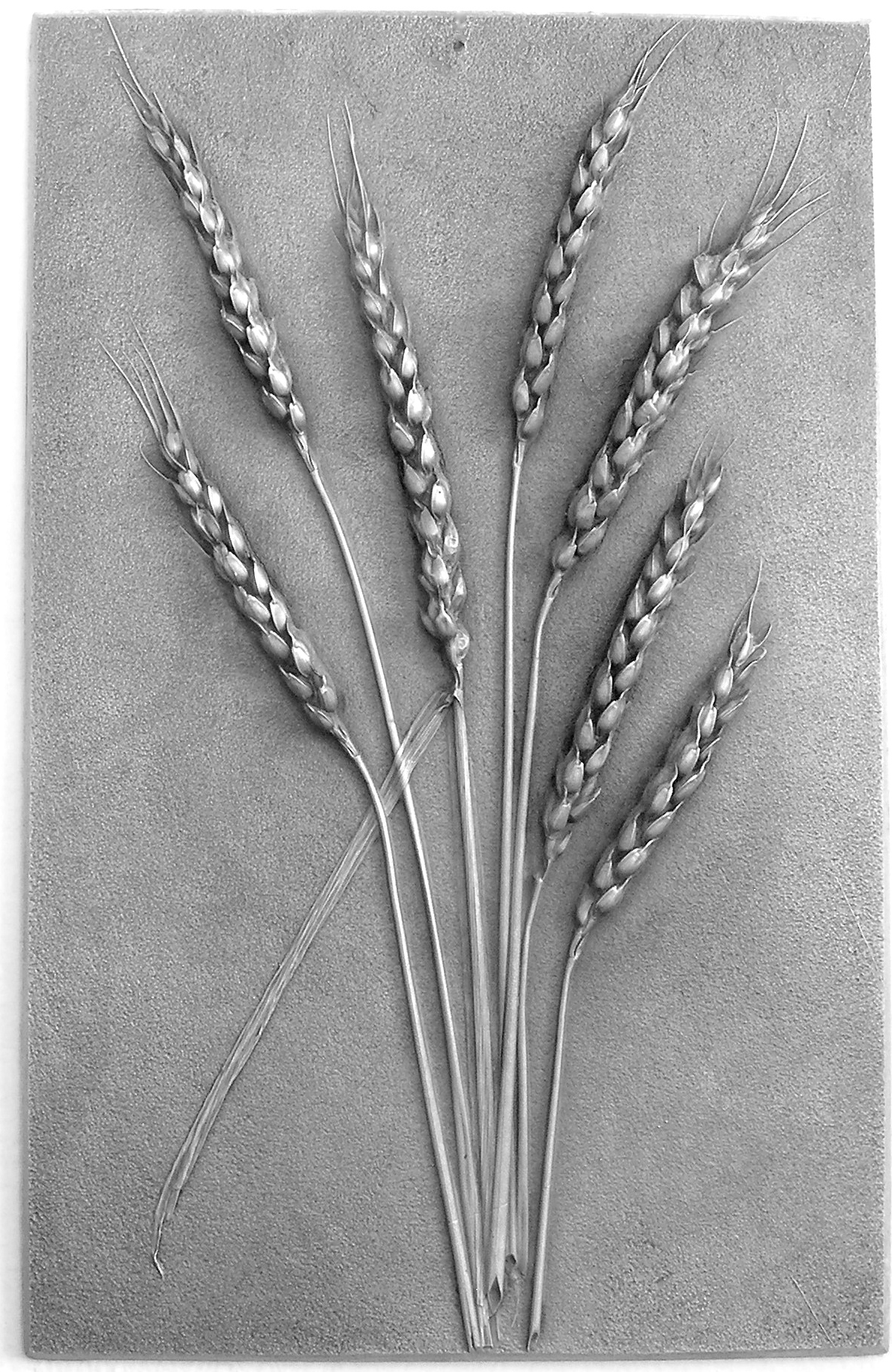 Weat bundle imprint made of art cast iron plate